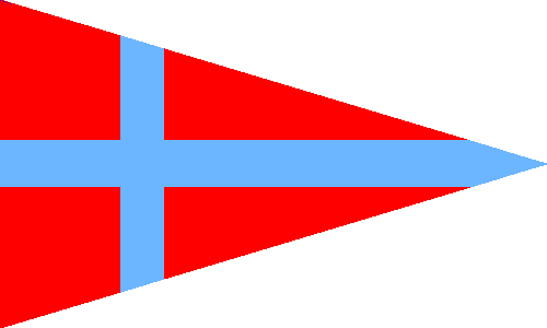 Yacht club flag